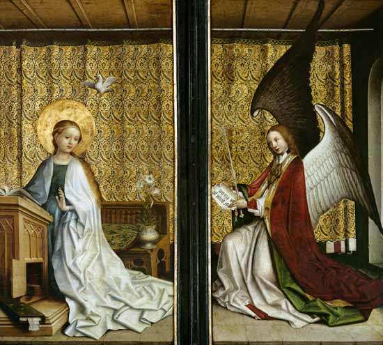 Altar of Three Magi in Cologne Cathedral